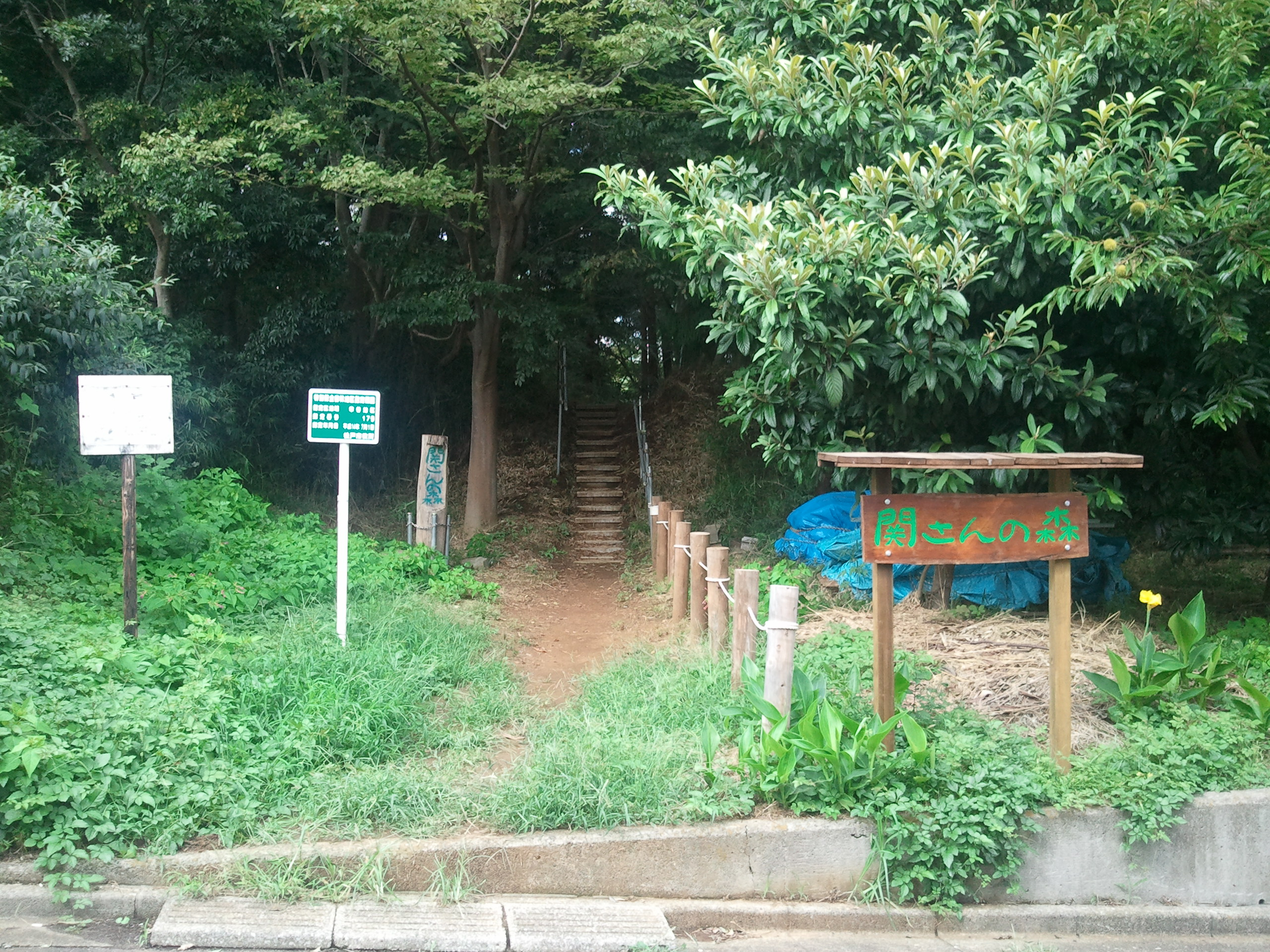 Seki-san no mori south